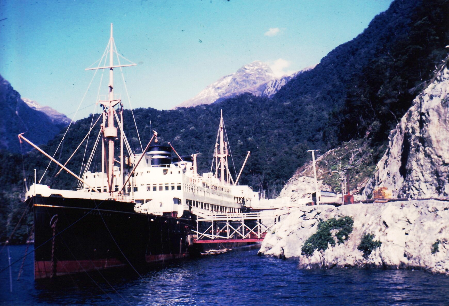 the Trans Tasman Liner Wanganella moored at Deep Cove Doubtful Sound